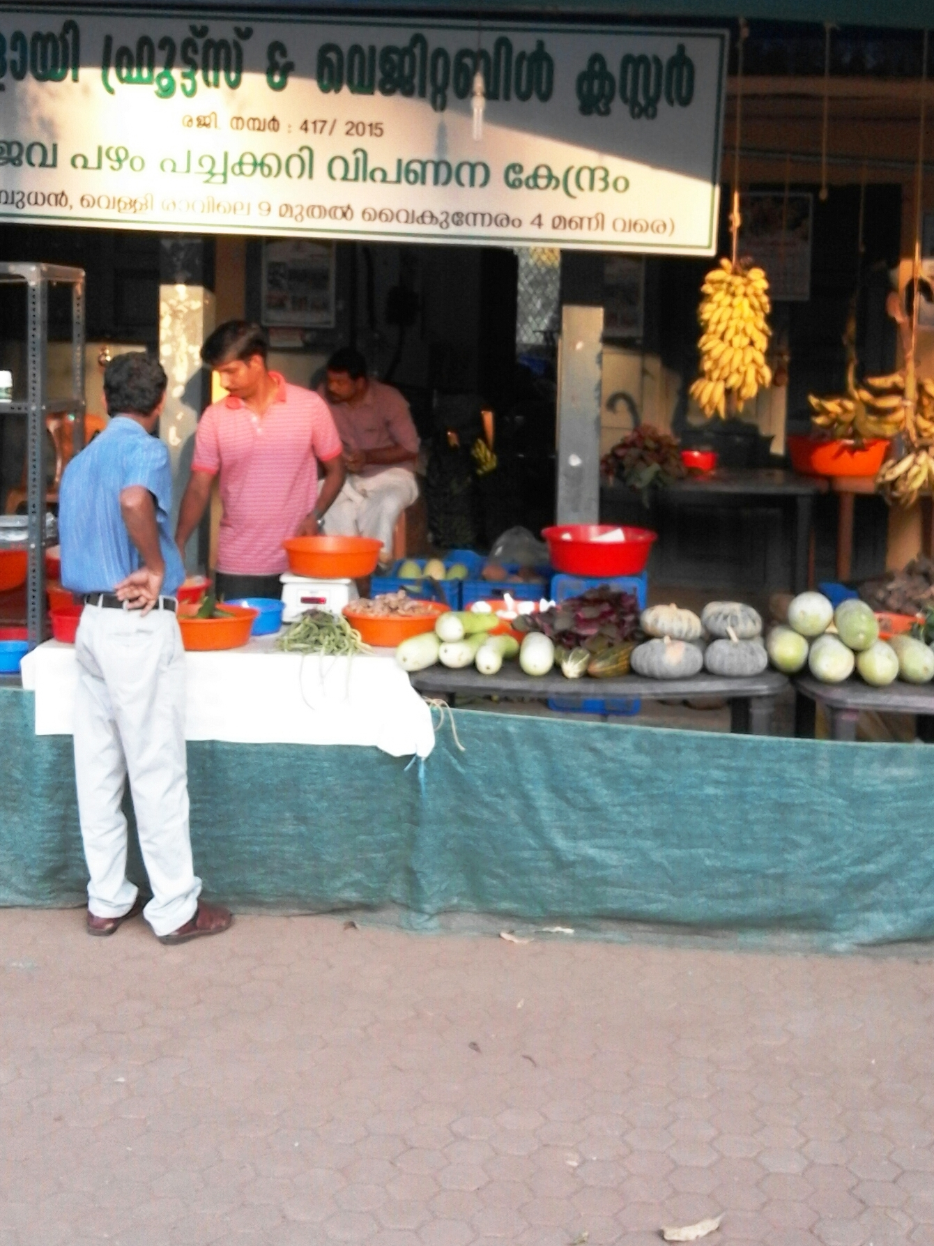 Government Vegetable Outlet, Karulayi, Nlambur, Kerala, India.